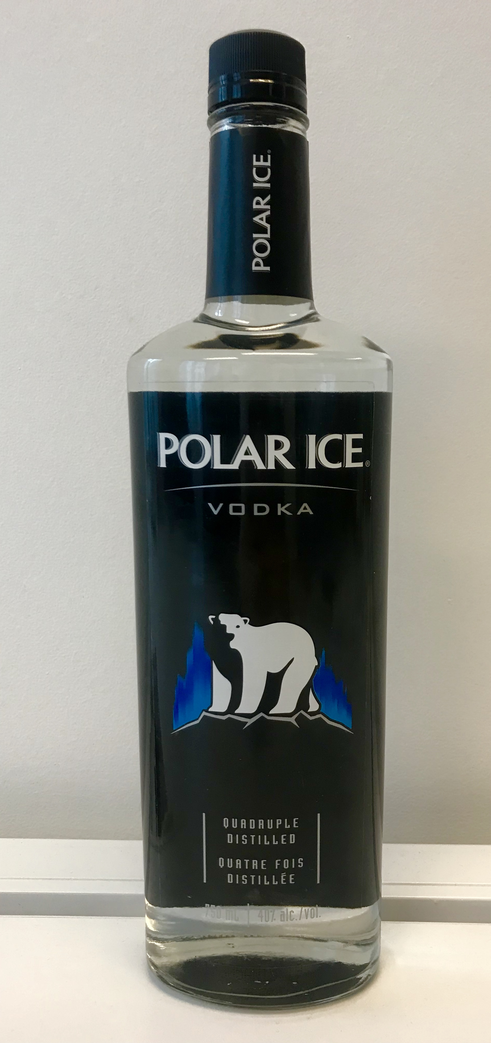 Polar Ice Vodka picture